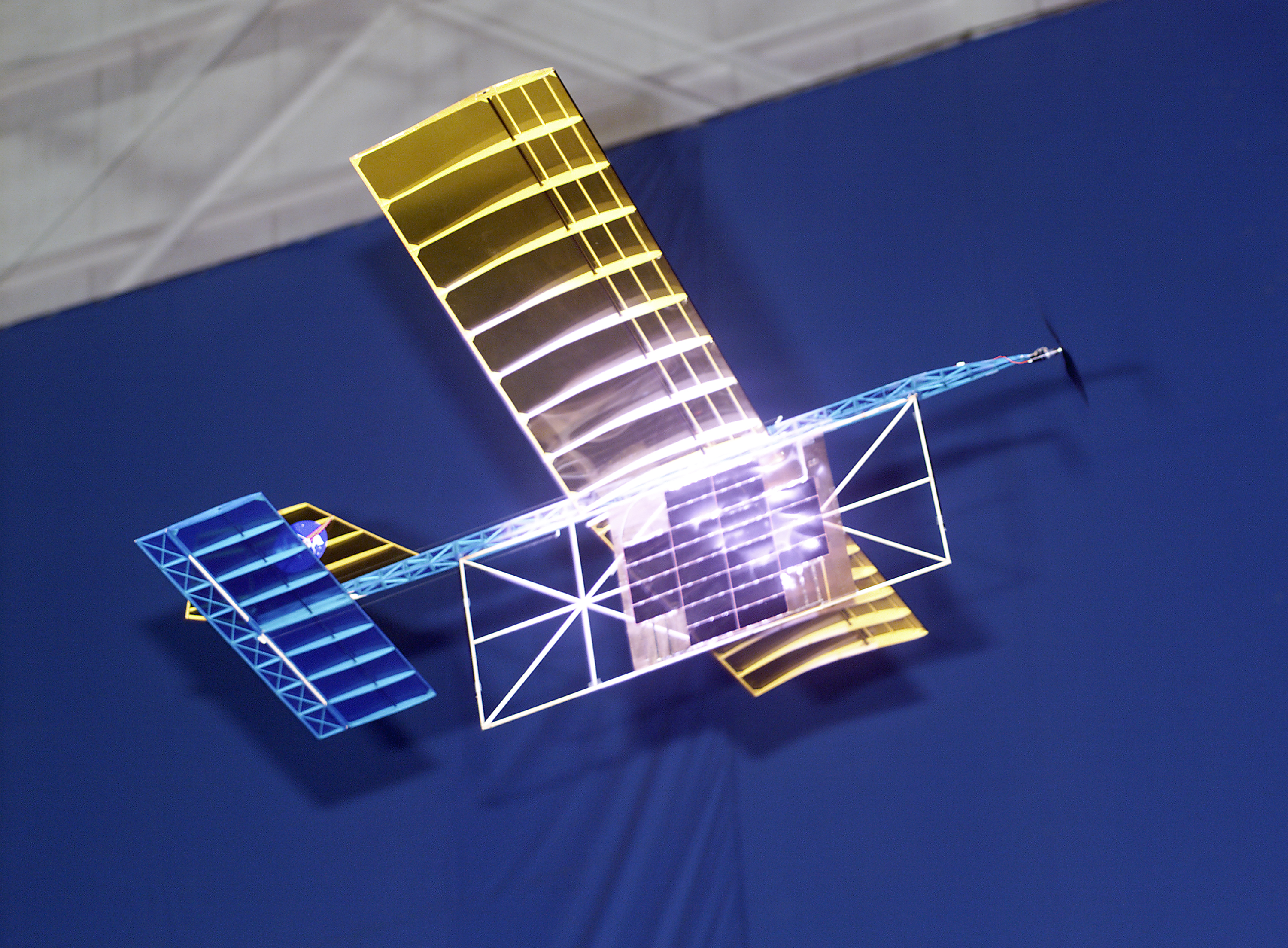 With a laser beam centered on its panel of photovoltaic cells, a lightweight model plane makes the first flight of an aircraft powered by a laser beam inside a building at NASA Marshall Space Flight Center.